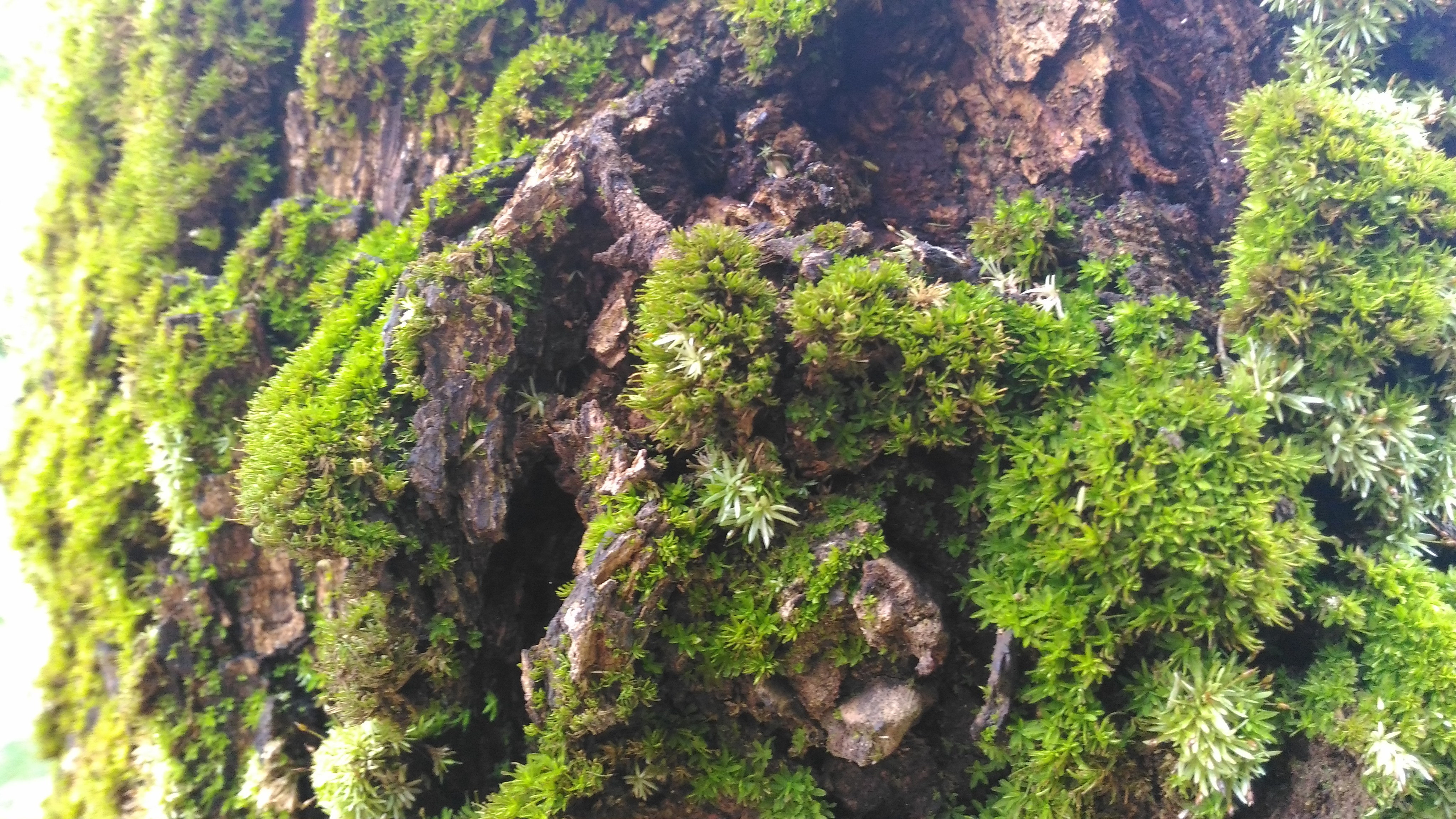 Algae_grown_on_tree_bark